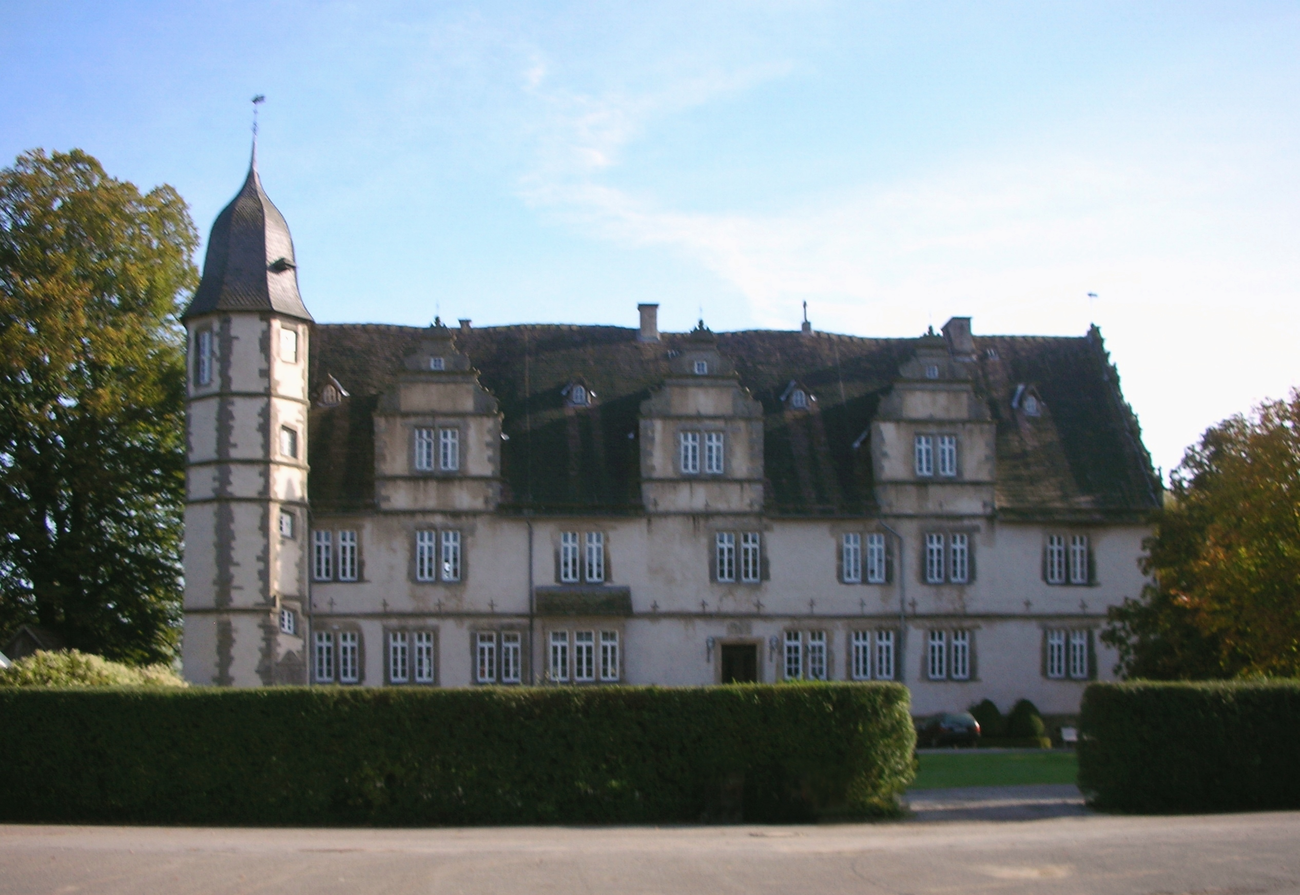 Water Castle Wendlinghausen in Lippe near Lemgo, Germany from 1613.